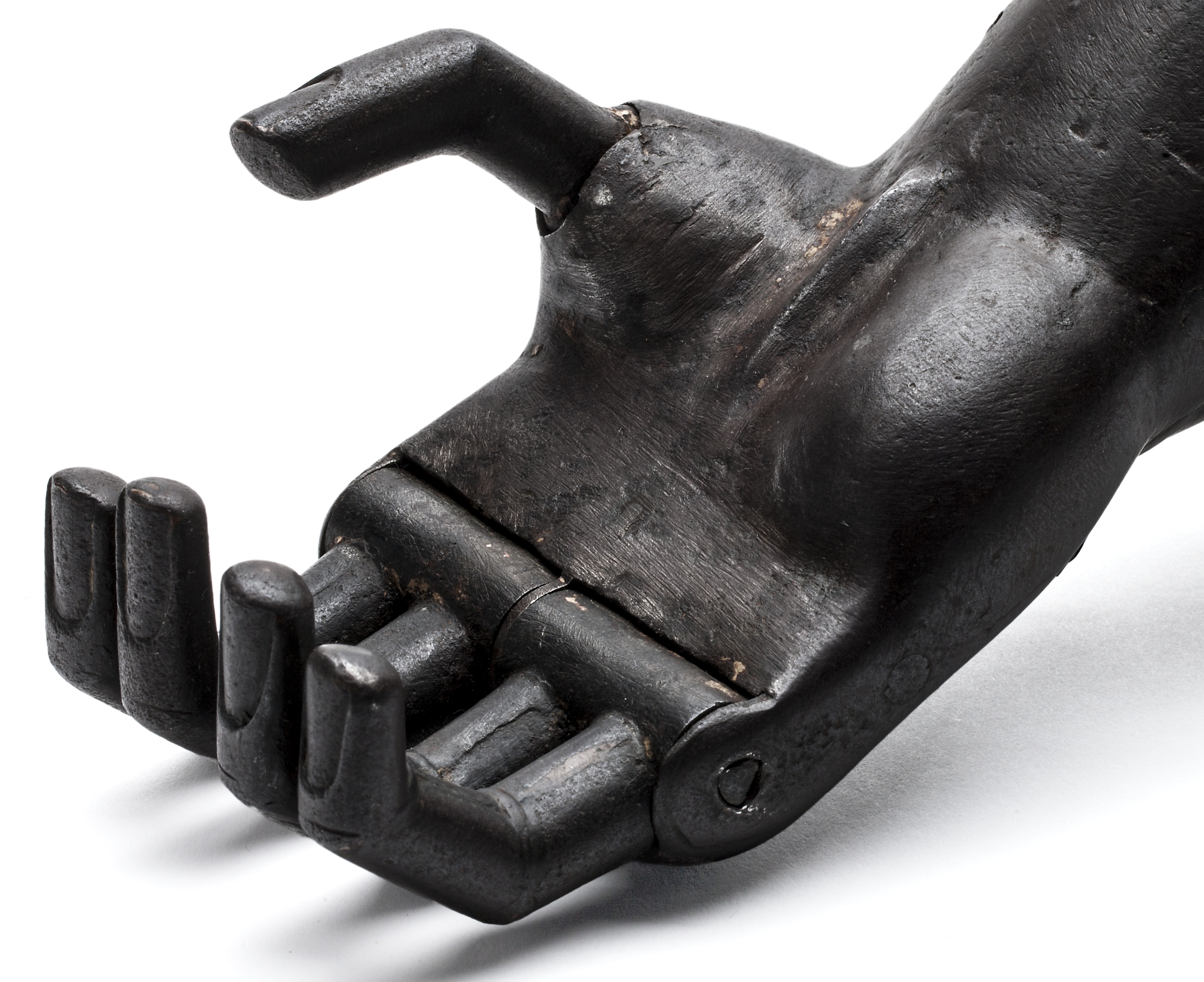 Artificial right hand (known as an iron hand), 16th/17th century (detail). Skokloster Castle, object no. 12286.